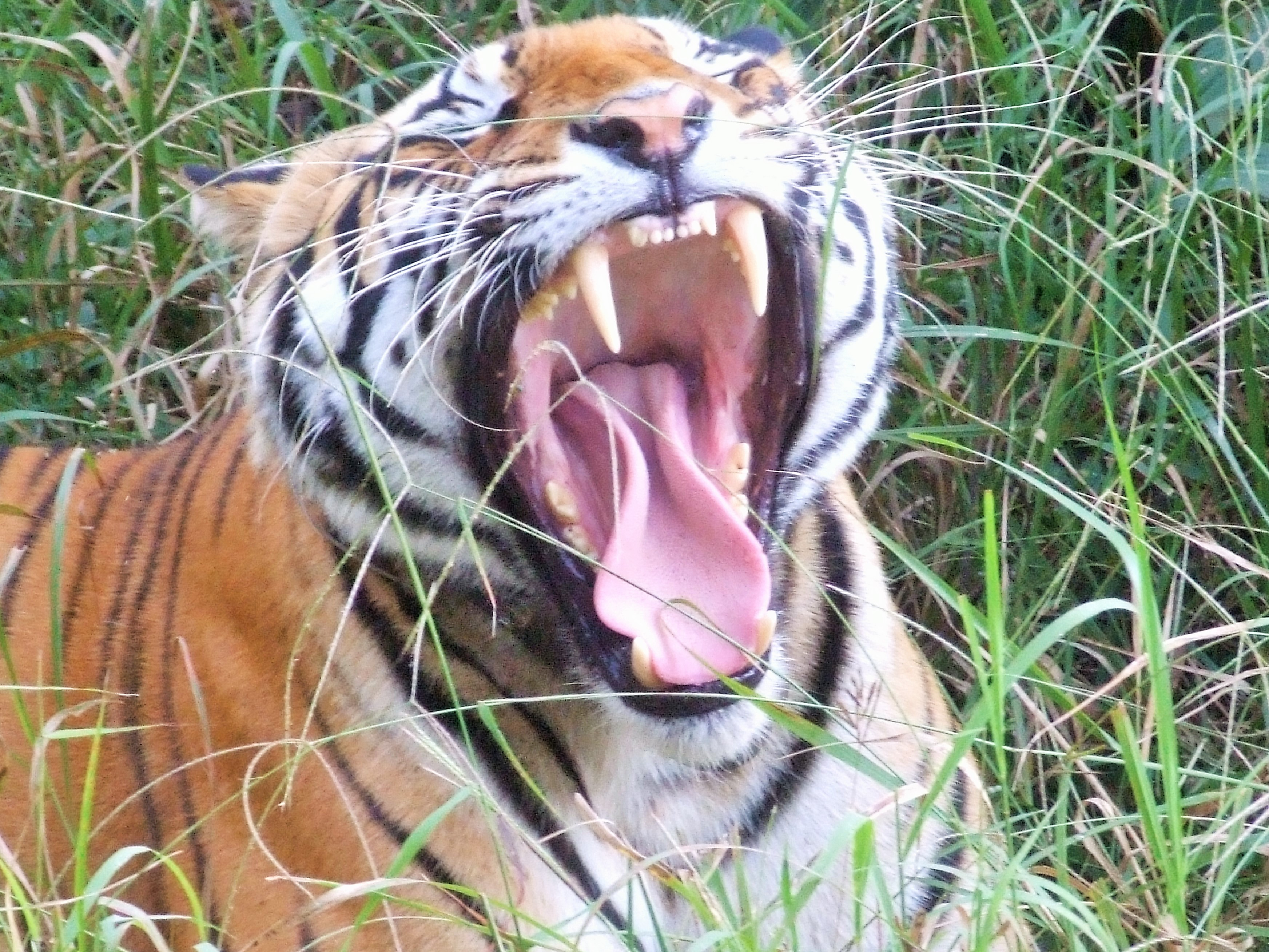 Gaping mouth tiger Kanha, India